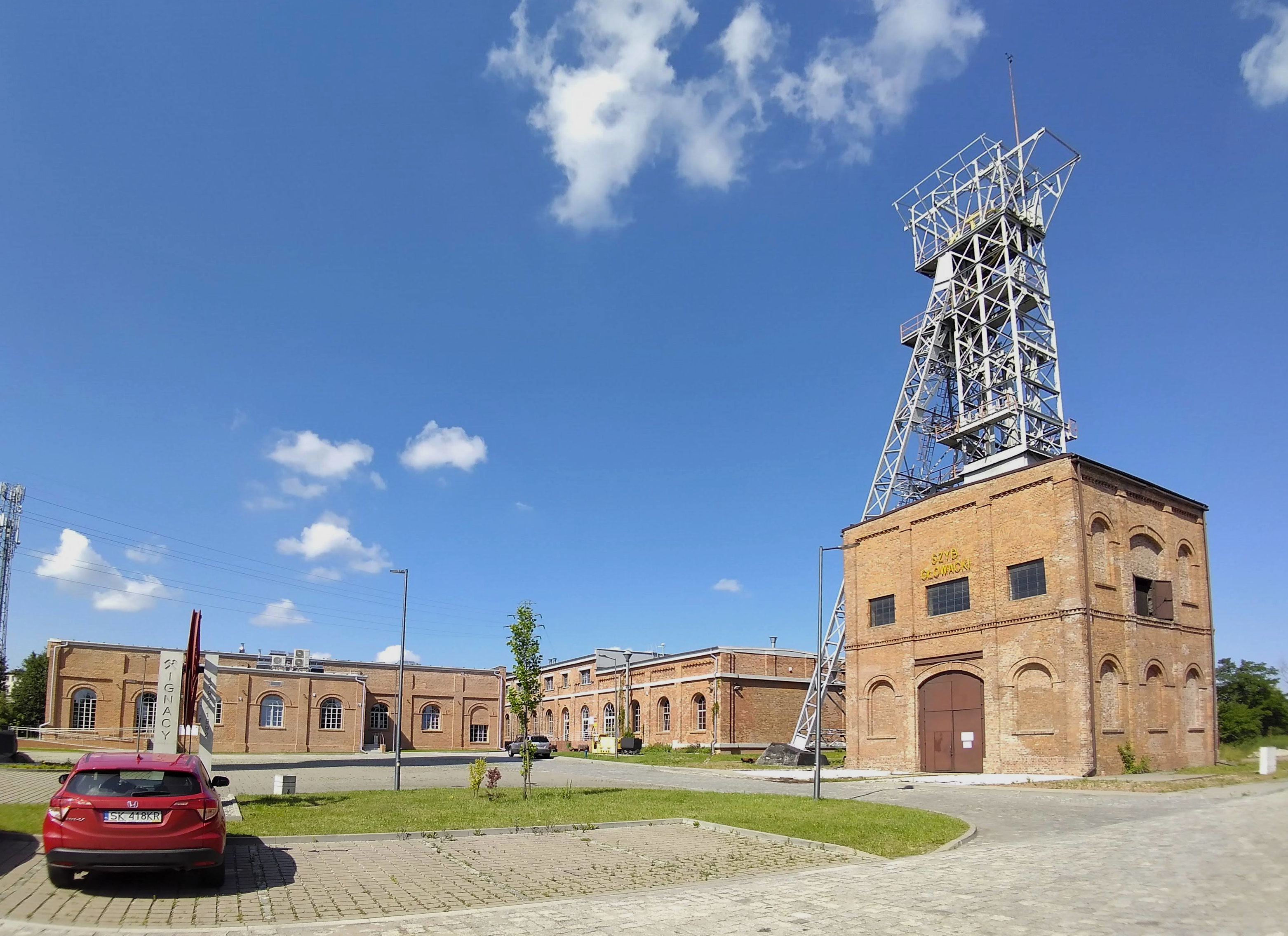 Former coal mine in Rybnik-Niewiadom, Upper Silesia, Poland, nowadays a mining museum.